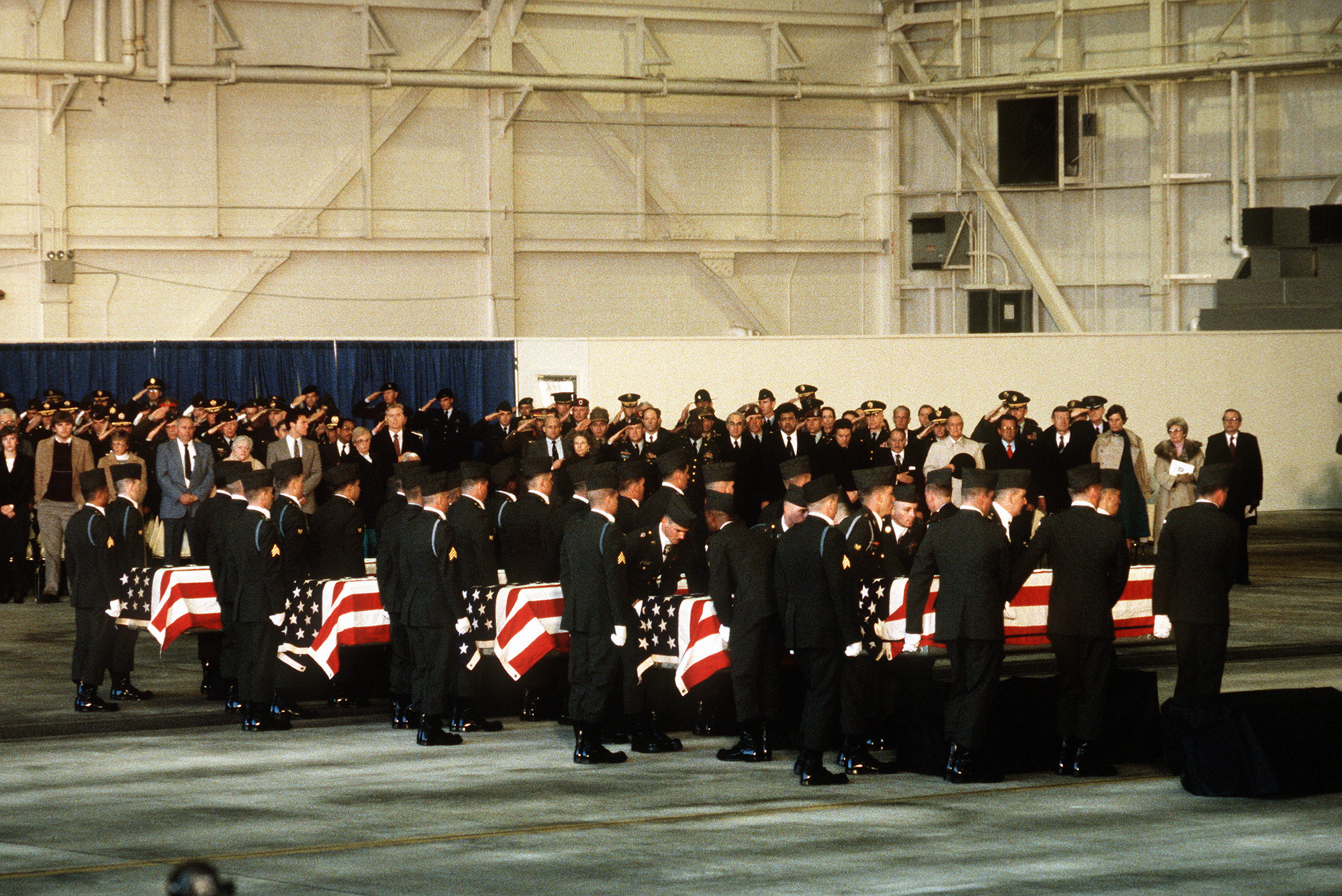 Mourners looks on as members of the 101st Airborne Division carry a casket containing the remains of members of the 3rd Bn., 502nd Inf., 101st Airborne Div., into a hangar for a memorial service. On December 12, 1985, 248 soldiers of the 3rd Battalion were killed in a plane crash at the Gander Airport, Newfoundland, Canada. They were returning to the United States after participating in peacekeeping duty with the Multi-national Force and Observers in the Sinai Desert.